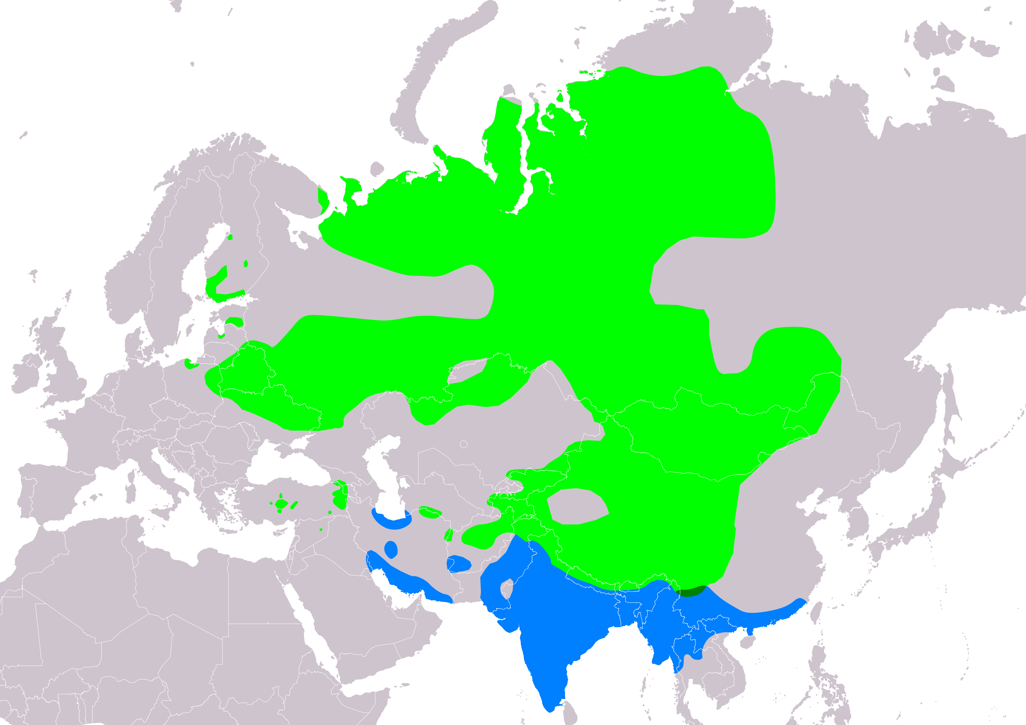 The distribution map of citrine wagtail (Motacilla citreola) according to IUCN version 2019.1 ; key: Legend: Extant, breeding (#00FF00), Extant, resident (#008000), Extant, non-breeding (#007FFF)